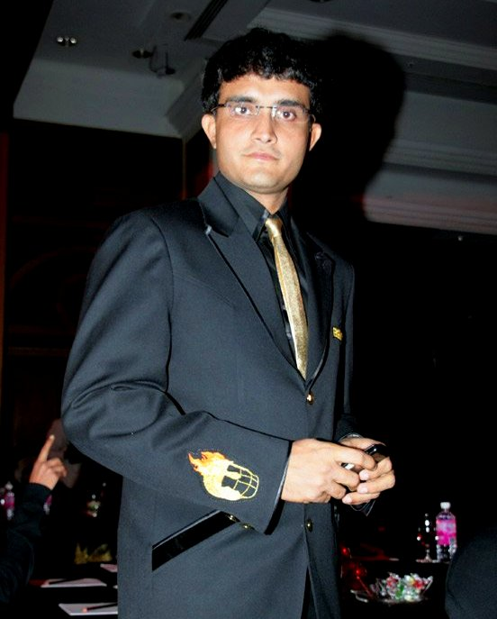 Sourav Ganguly at the opening of the mascot of Knight Riders